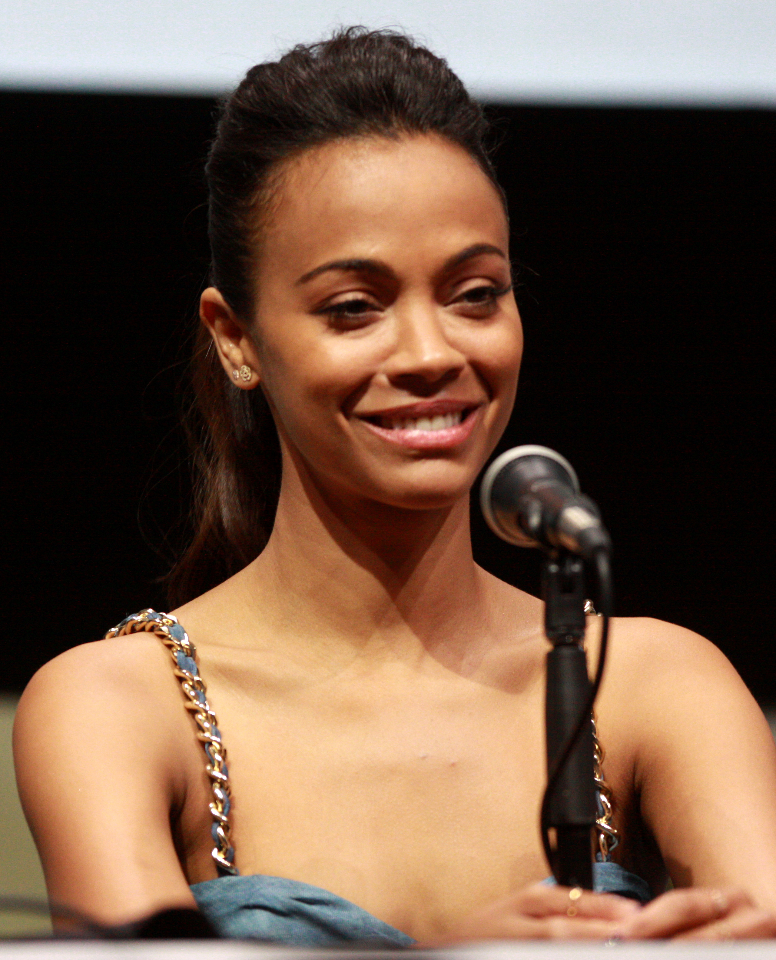 Zoe Saldana at the 2013 San Diego Comic Con International in San Diego, California.